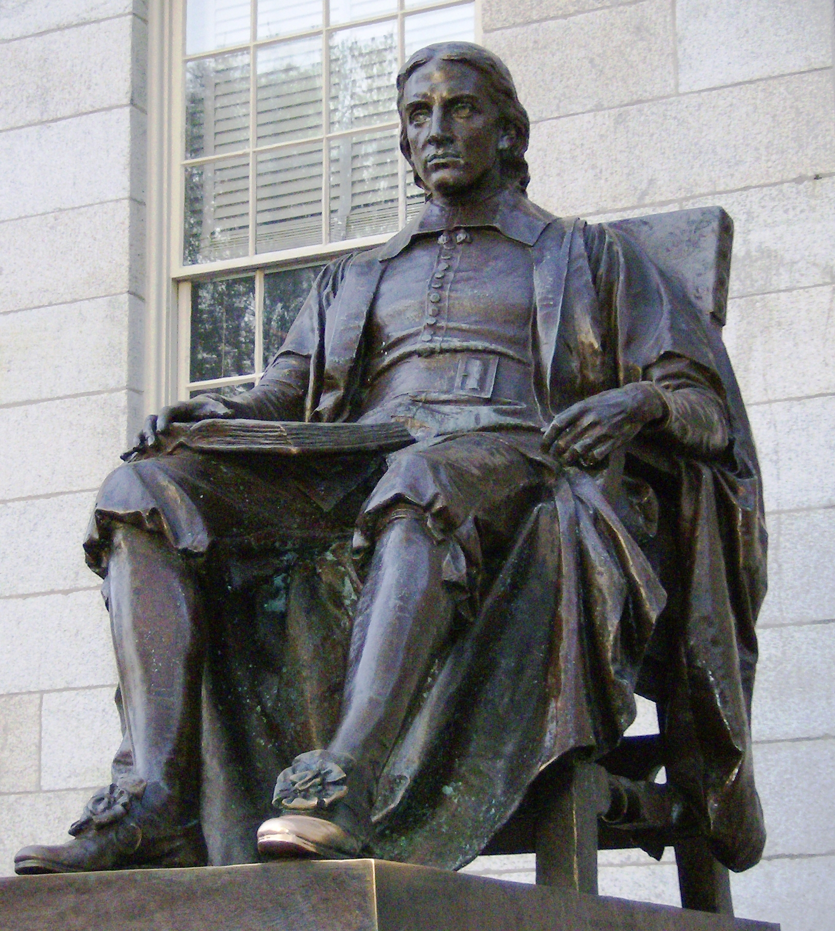 An "idealized" representation of John Harvard, there being nothing to indicate what he had actually looked like. The inscription below reads John Harvard · Founder · 1636 Tour guides tell visitors that statue is also known as "Statue of Three Lies", the three lies being purported to be: Lie # 1 : This is not John Harvard's face; no picture or statue of John Harvard survived. Lie # 2 : John Harvard was not founder of Harvard University; it was founded two years prior to being renamed Harvard in 1638. Lie # 3 : The inscription says that Harvard was founded in 1638; in fact, it was founded two years earlier. However, as explained by Harvard officials many times over the last century, (1) Many statues of historical figures are idealized, as no one knows what the person represented looked like; (2) Harvard was not the but a founder of the school, "founding" being a process that takes much time and many hands; (3) The school was begun in 1636, but John Harvard's role in its founding was played in 1638. See John Harvard statue.